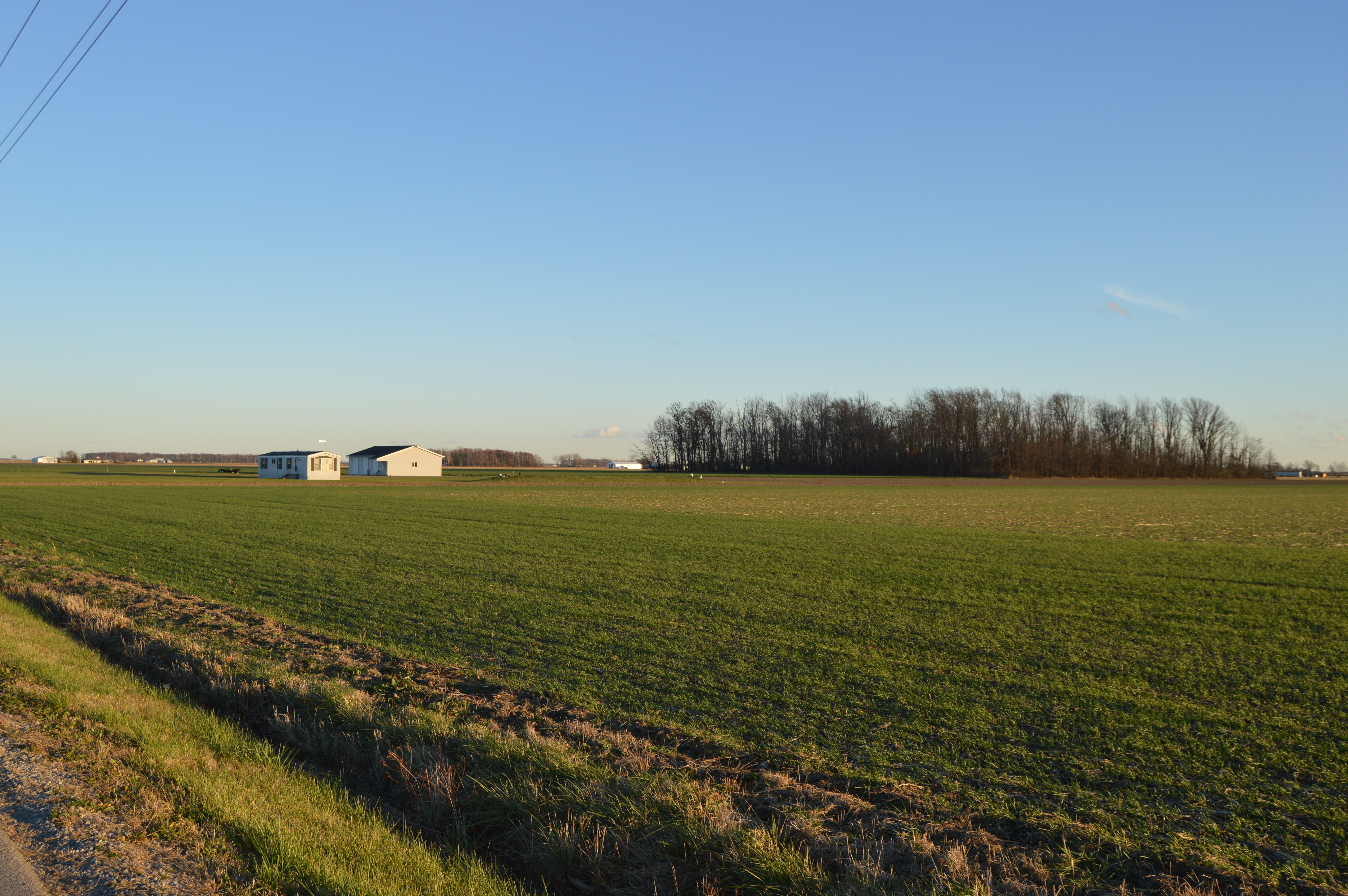 Fields on the southeastern corner of the intersection of U.S. Route 224 and Convoy Road in southwestern Hoaglin Township, Van Wert County, Ohio, United States.